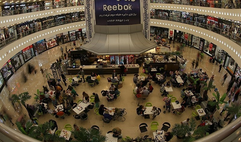 Kish Island during Norouz holidays